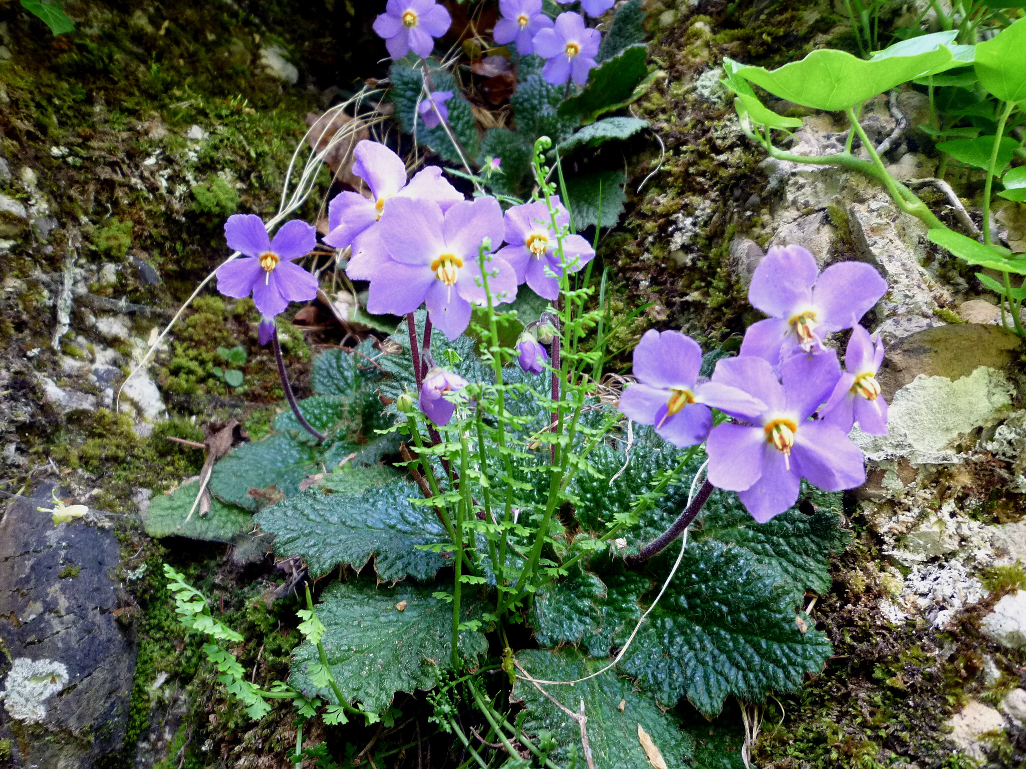 Ramonda miconi. In Guixers (Solsonès - Catalunya). To 950 m. altitude